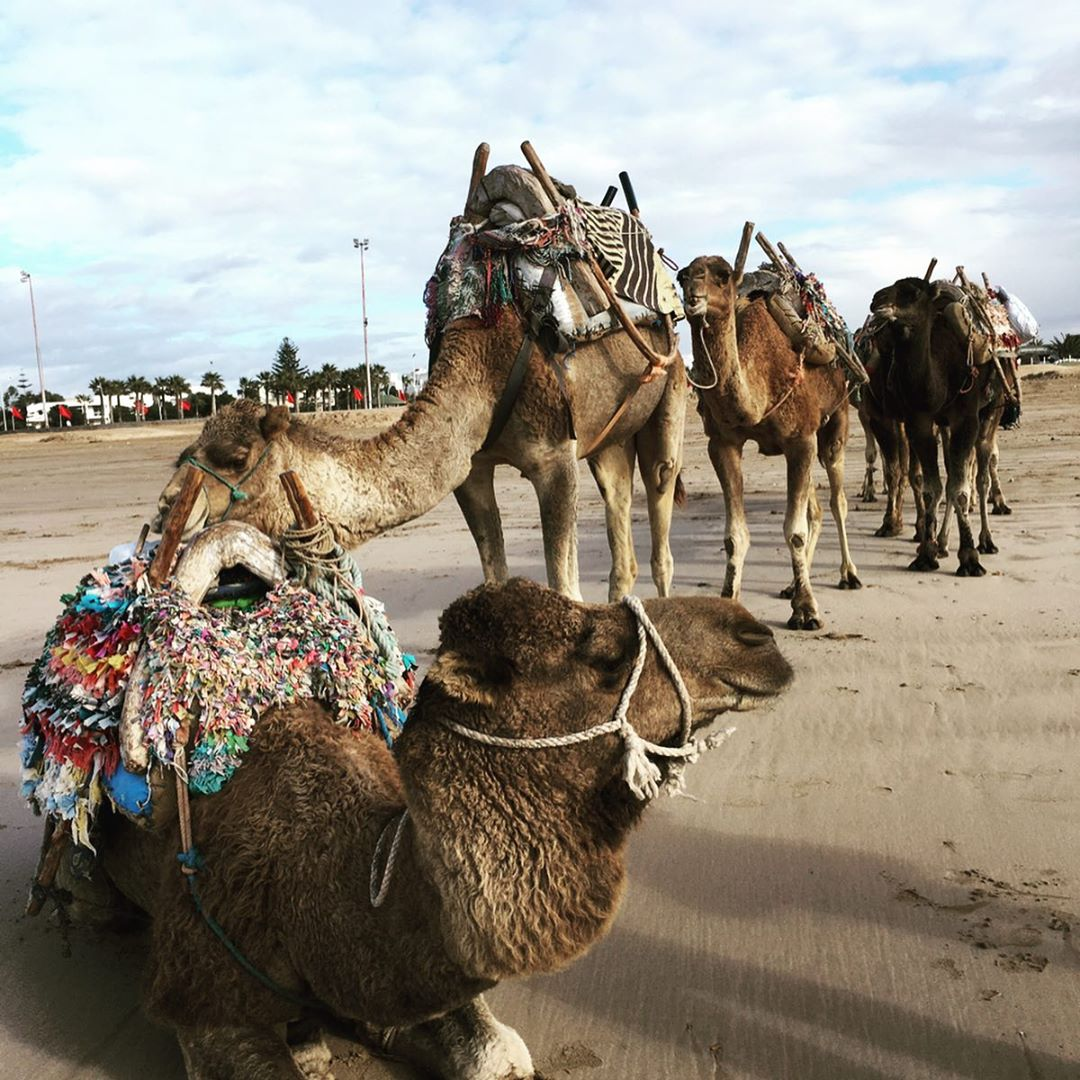 La Plage D'Essaouira This is an image with the theme "Africa on the Move or Transport" from: Morocco